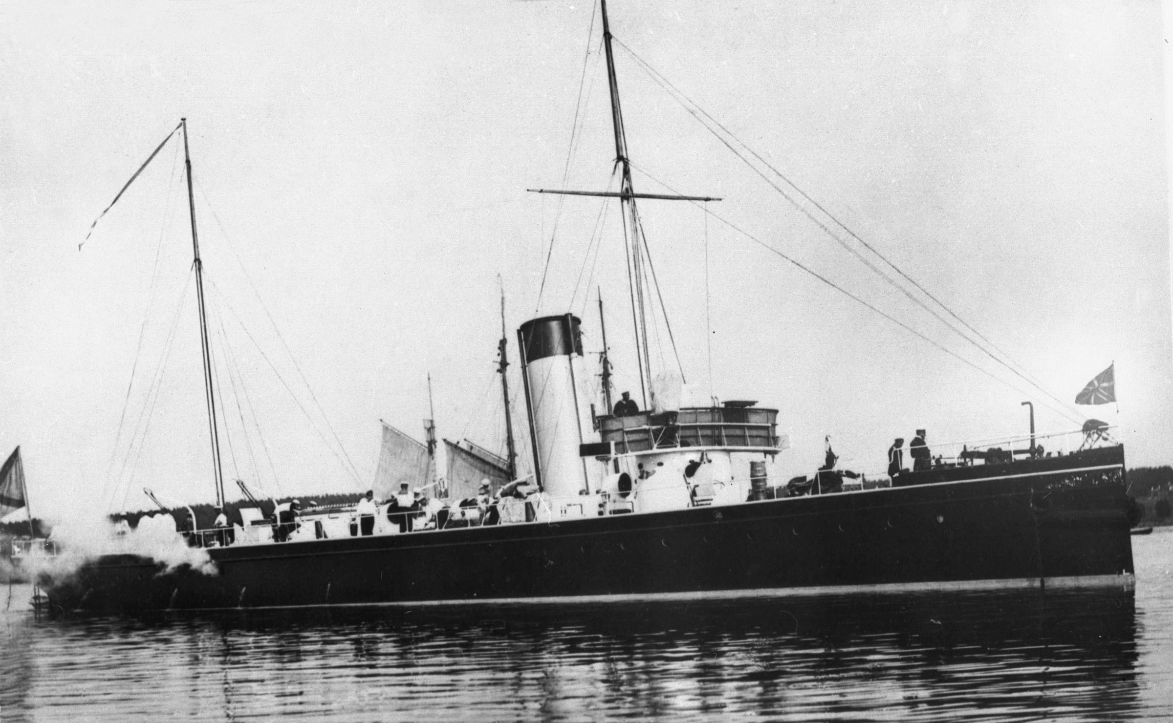 The Imperial Russian torpedo crusier Voevoda in Kronstadt, circa 1896.